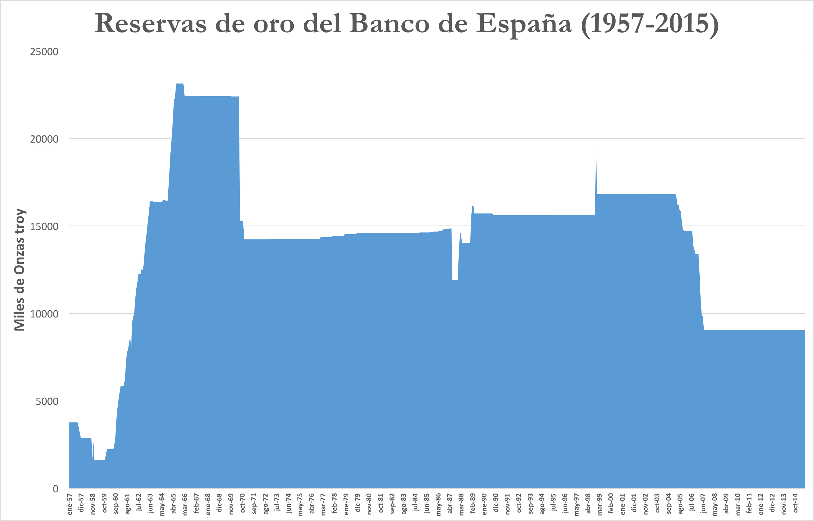 International reserves Made from Time Series of table 17.26 (csv file)